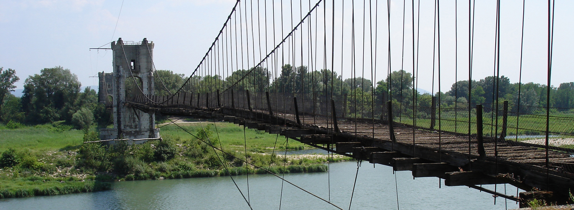 Old suspension bridge near Rochemaure, Ardèche, France